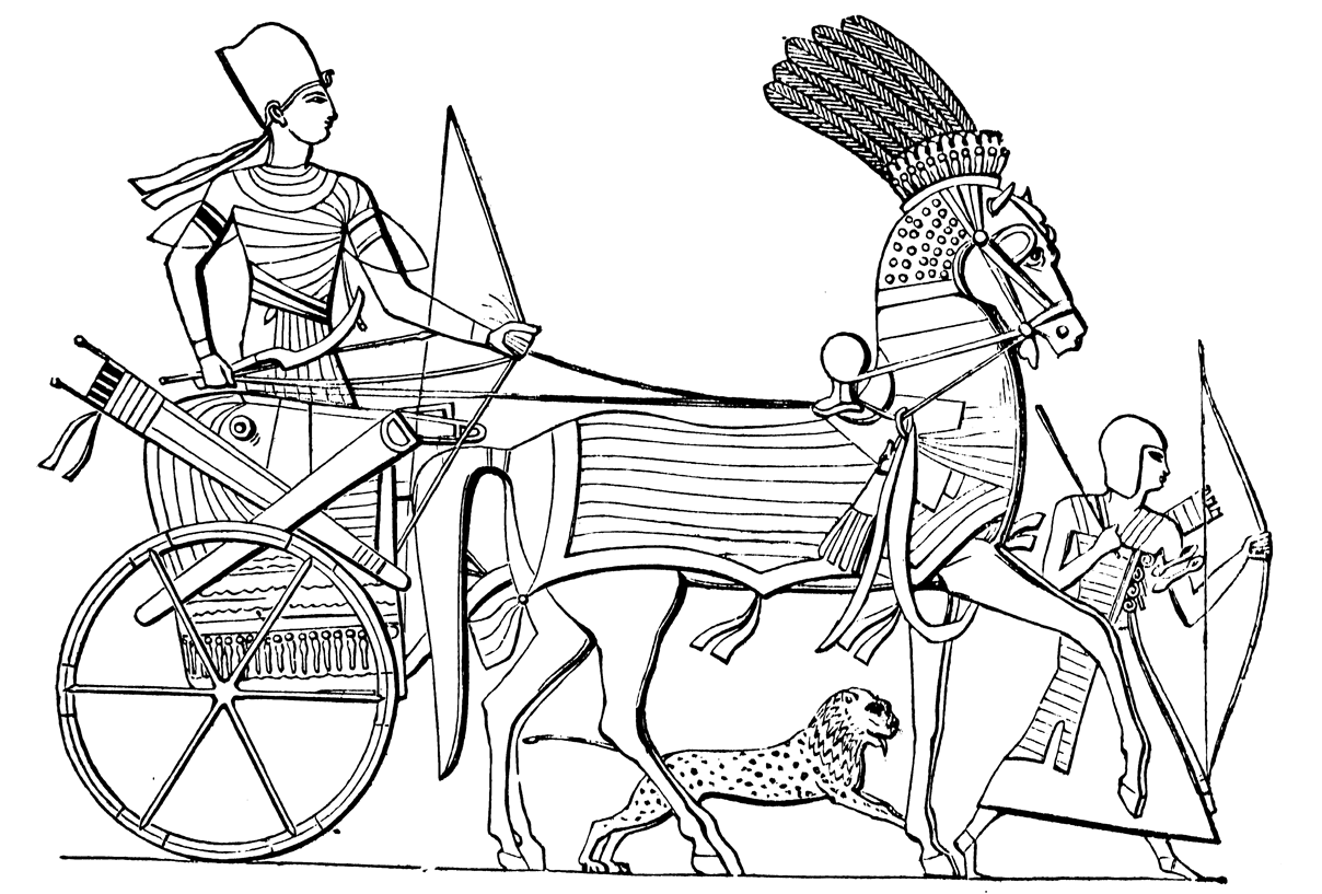 Egyptian Chariot, Char Egyptien